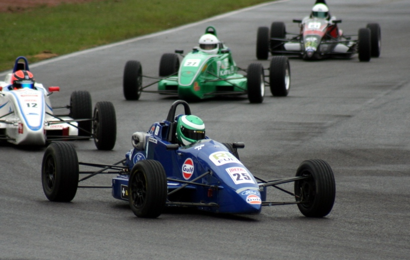 Finnish Formula Ford championship race at Alastaro Ciruit. In picture: Oskari Kurki-Suonio (25), Mygale SJ06 (Zetec); Jesse Anttila (12), Van Diemen RF03 (Zetec); Per Stenius (27), Van Diemen RF02 (Zetec) and Milla Mäkelä (51), Mtec FD09 (Duratec)